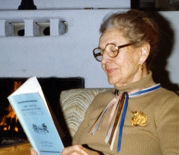 Sophie Bledsoe Aberle, American anthropologist, physician and nutritionist. Photograph taken by Vernice Anderson of Aberle at her residence in New Mexico, January 1982.